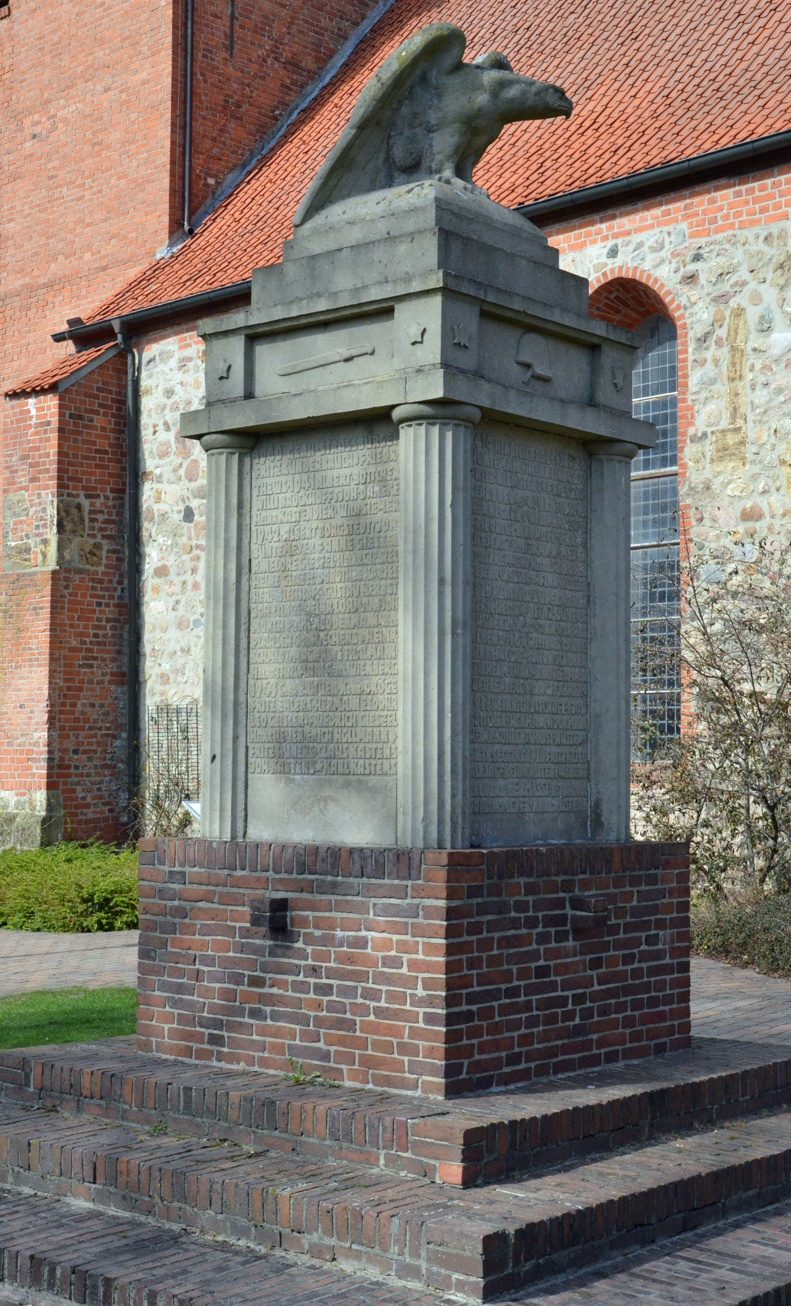 Cultural heritage monument in Syke-Barrien